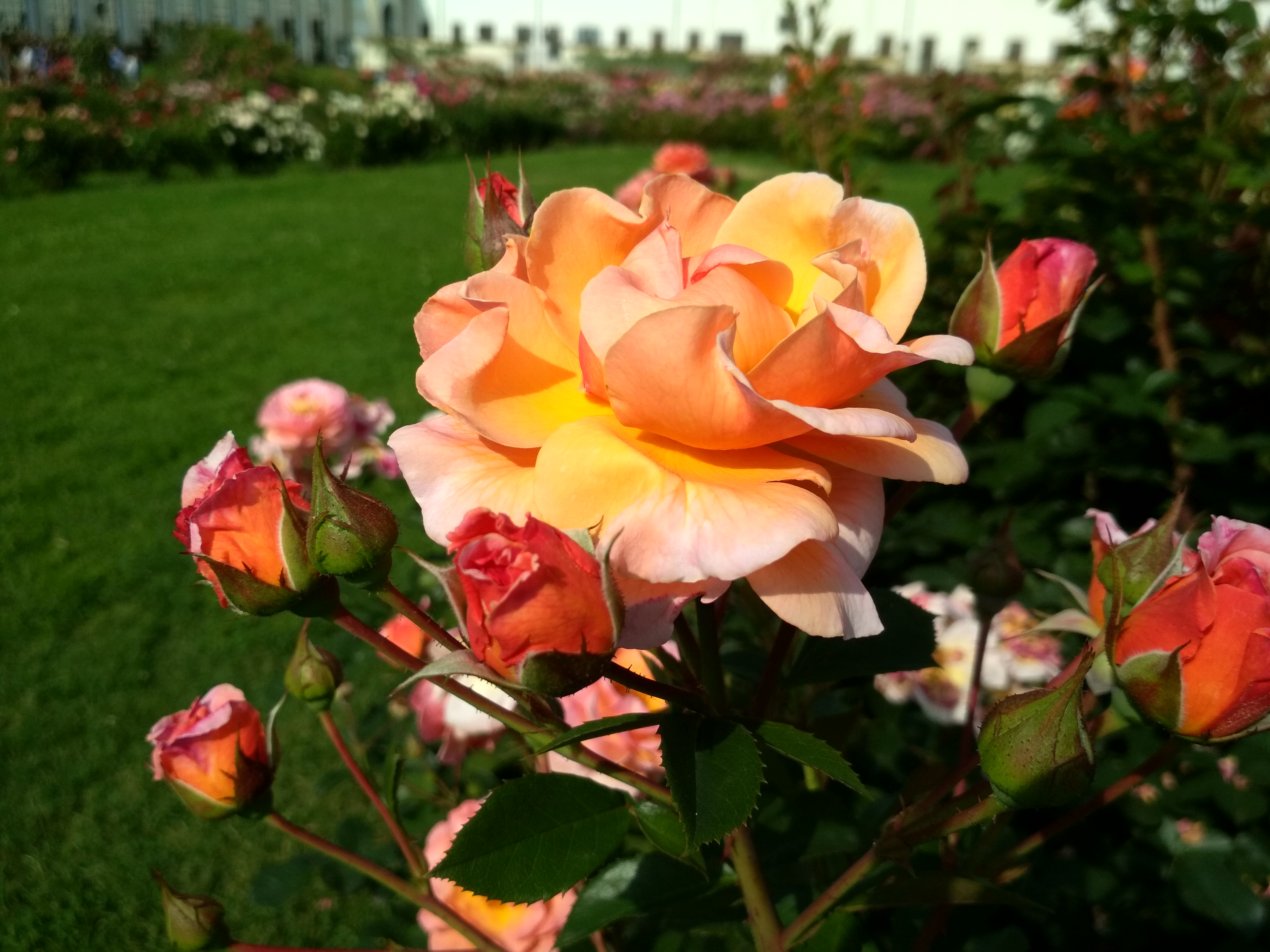 Botanic garden in Monza, Italy